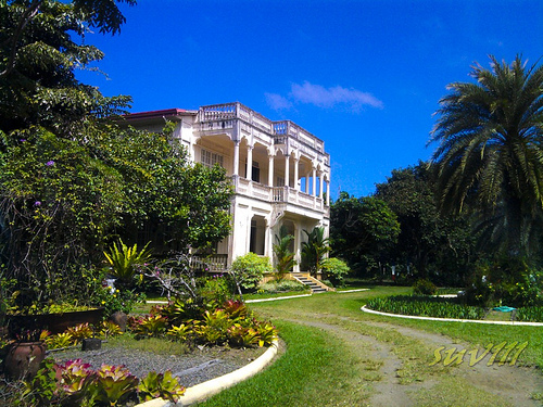 the villa Hacienda Rosalia, where in 1981 was made the filipino film production Oro, Plata, Mata ("gold, silver, death"), in the filipino province Negros Occidental